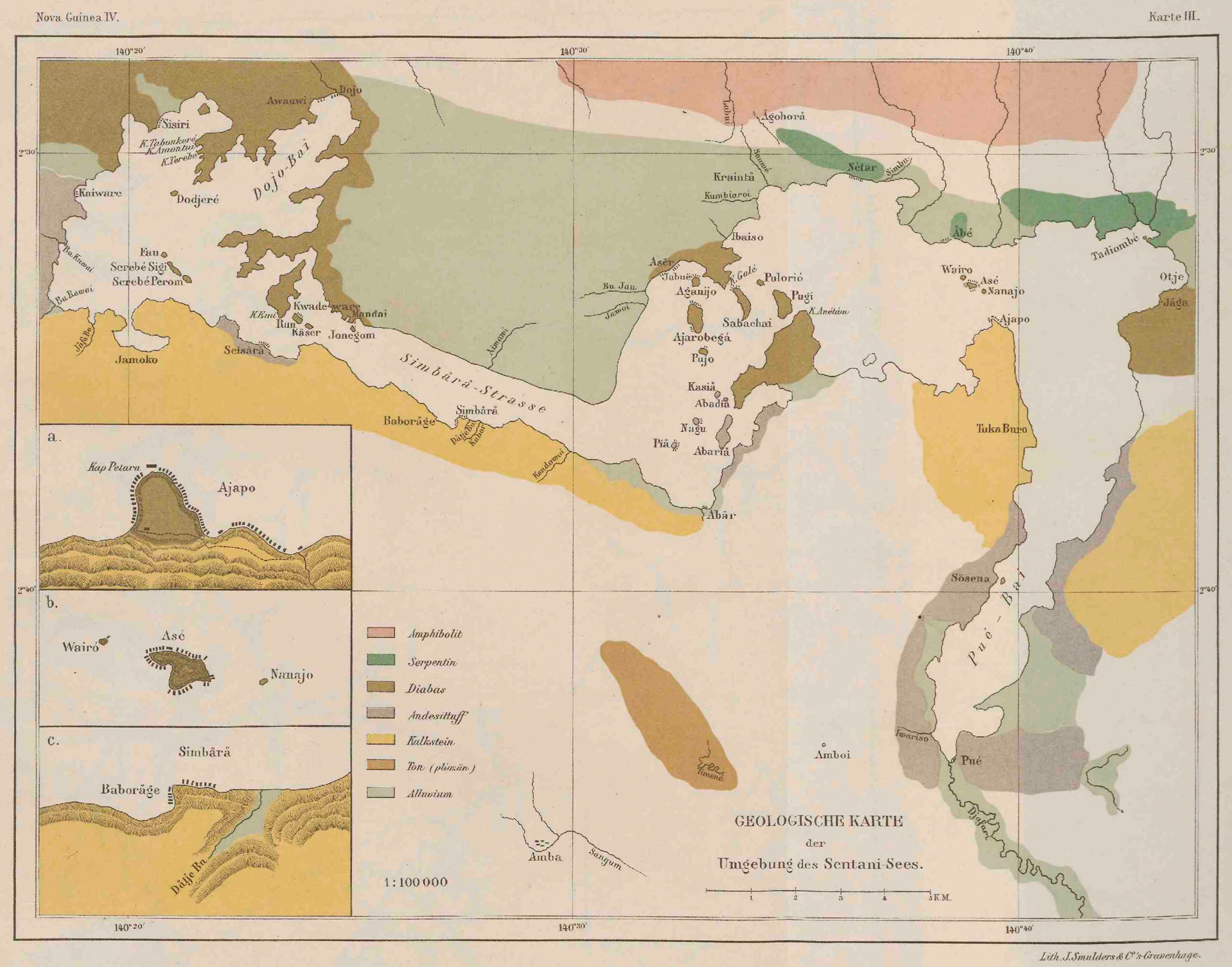 Map 3 from Wichmann, Carl Ernst Arthur (1917) Nova Guinea : résultats de l'expédition scientifique néerlandaise à la Nouvelle-Guinée en 1903. Vol. IV: Bericht über eine im Jahre 1903 ausgeführte Reise nach Neu-Guinea, Leiden: Brill